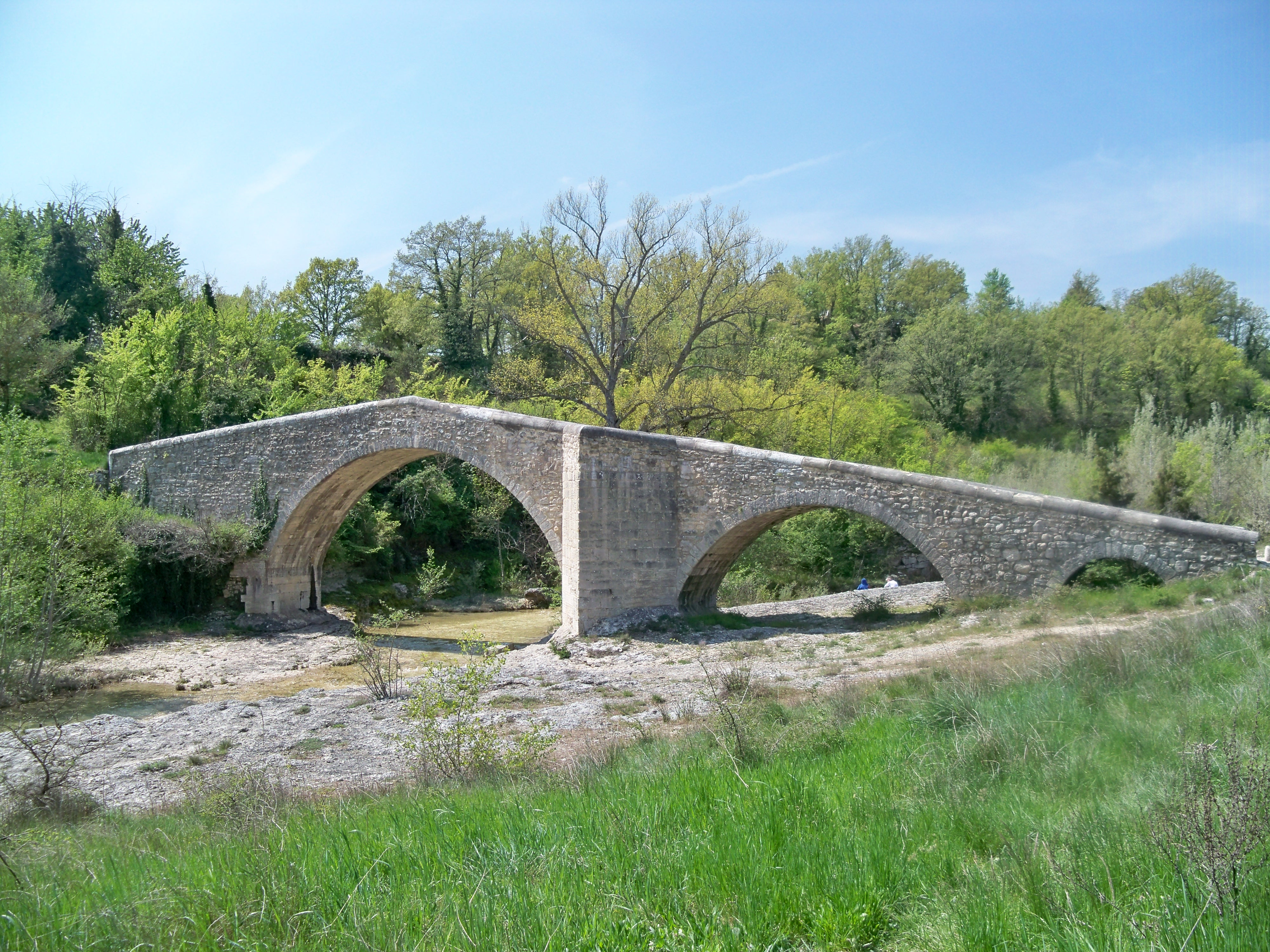 Bridge across Laye river near Mane, France